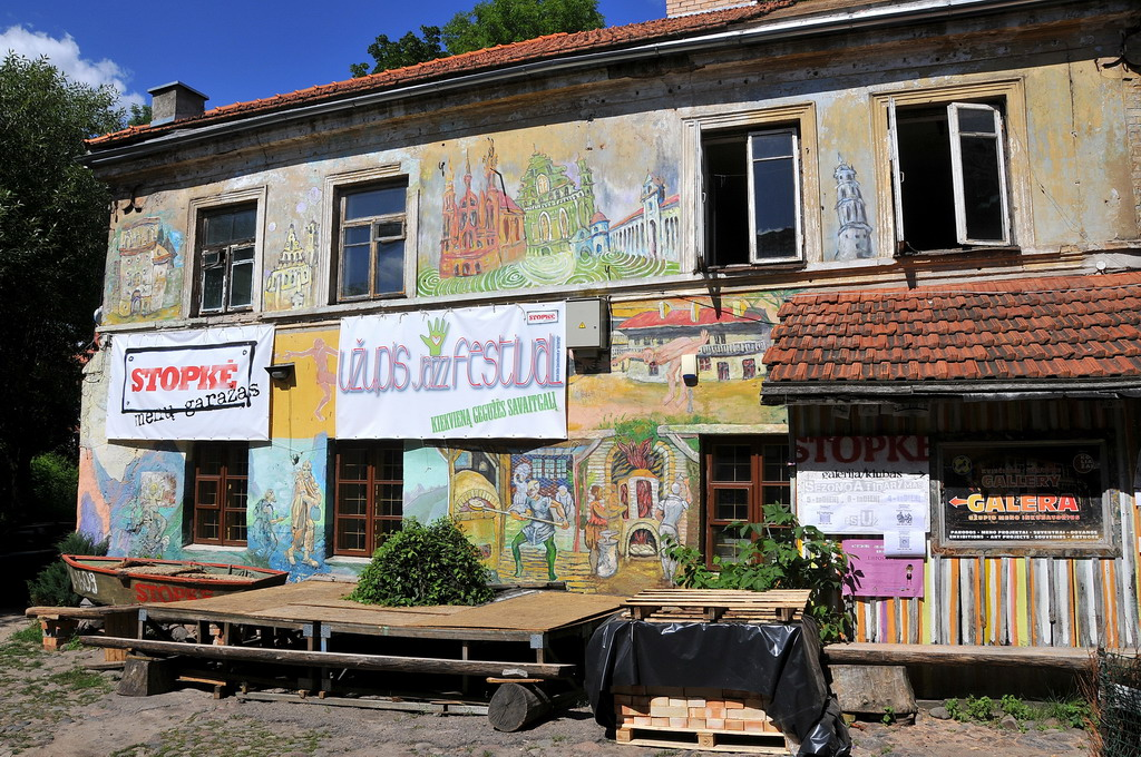 Graffiti on one of The Republic of Užupis buildings.